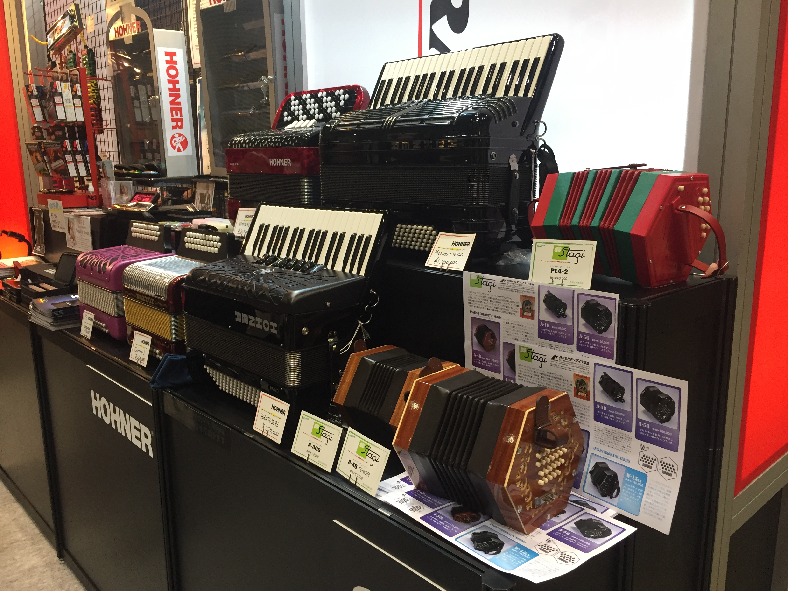 Squeezeboxes on exhibition at the exhibition booth of Moridaira Gakki, Musical Instruments Fair Japan 2016.